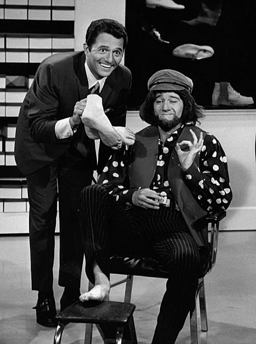 Publicity photo of comedian George Carlin (right, in costume) and singer Buddy Greco (left) in a skit from the summer replacement television program Away We Go.